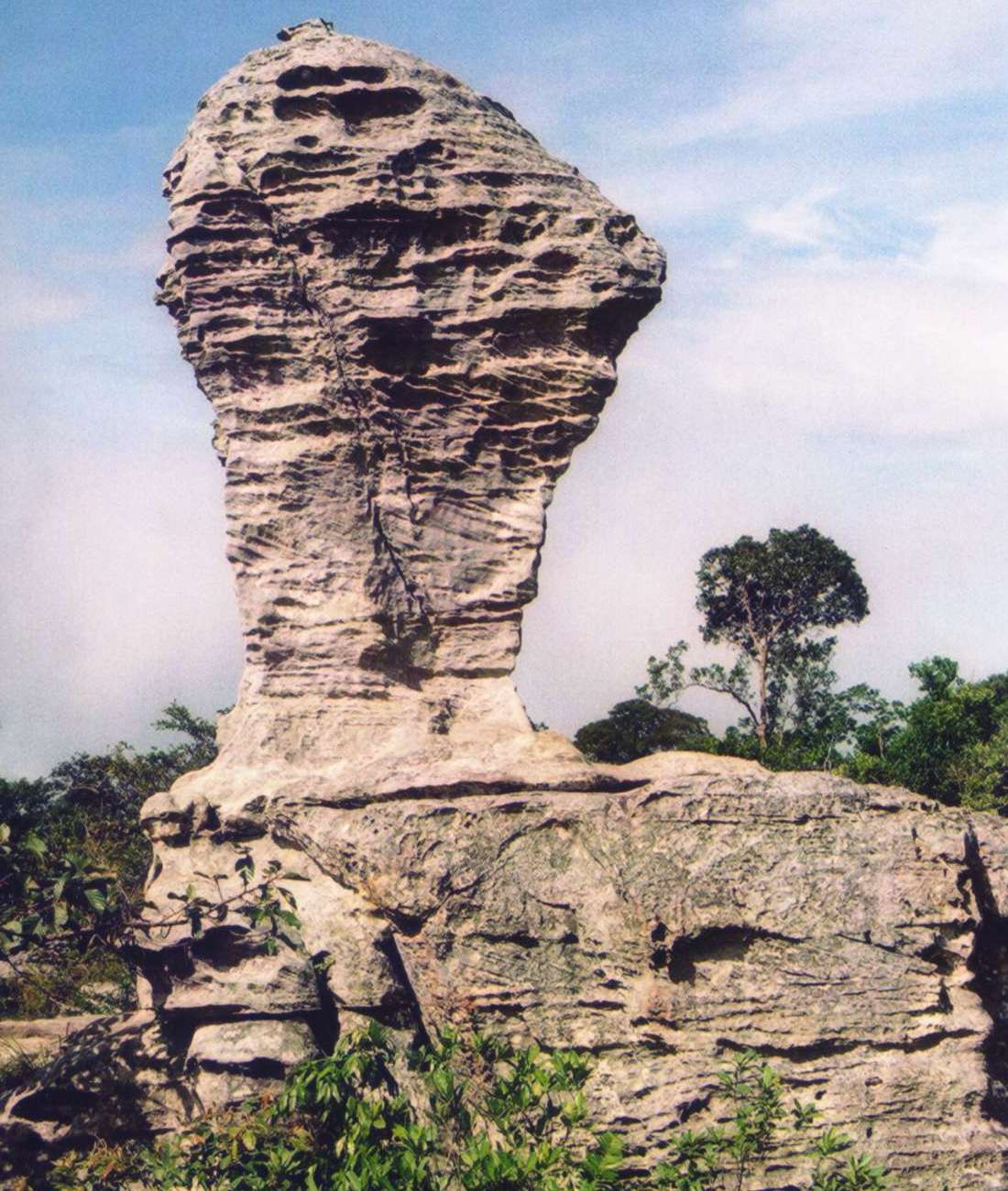 Rock formations of Pa Hin Ngam National Park, Chaiyaphum province, Thailand Photo taken by User:Ahoerstemeier on July 14 2003.